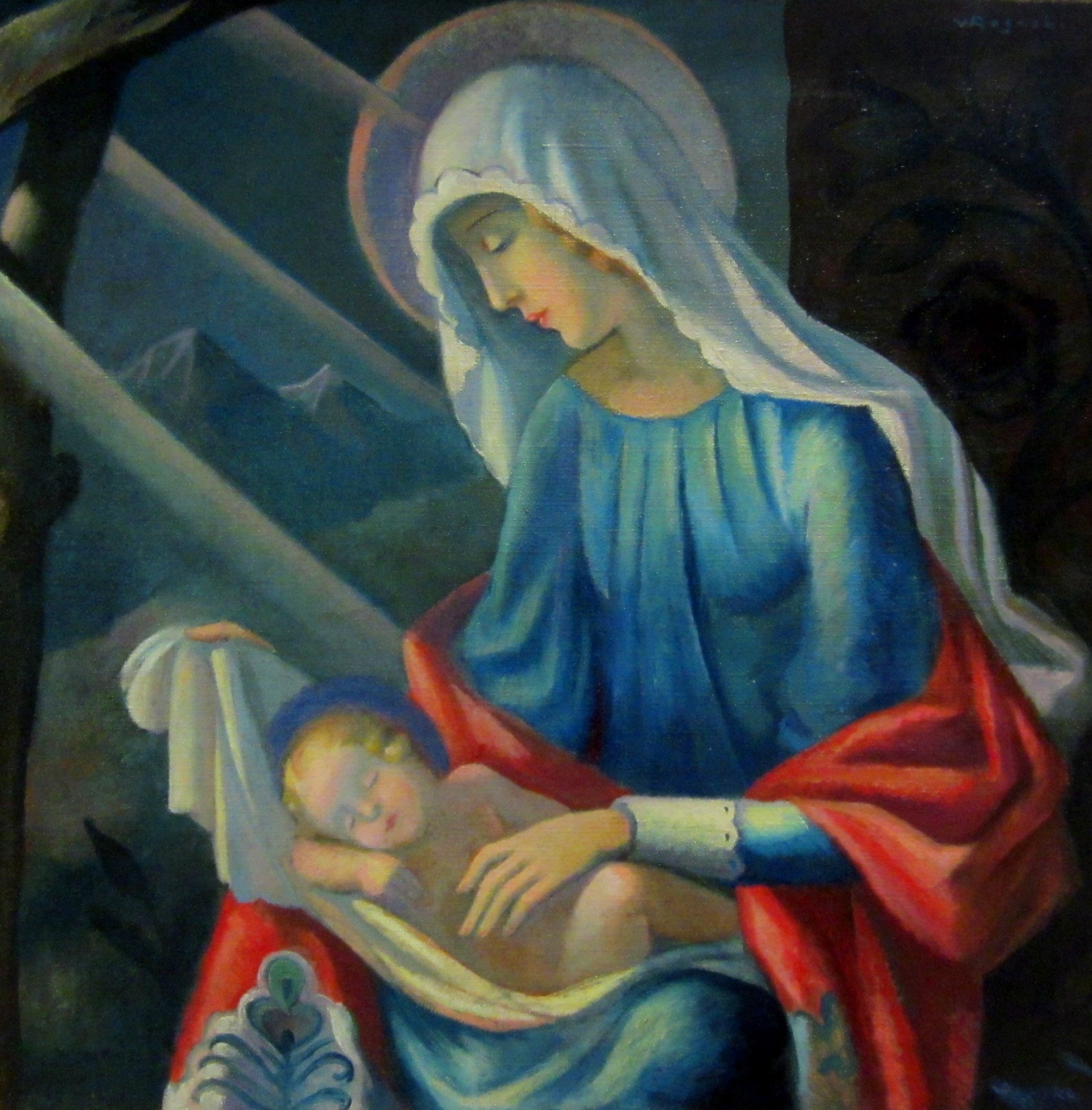 Władysław Roguski - Madonna with a Child (1925)